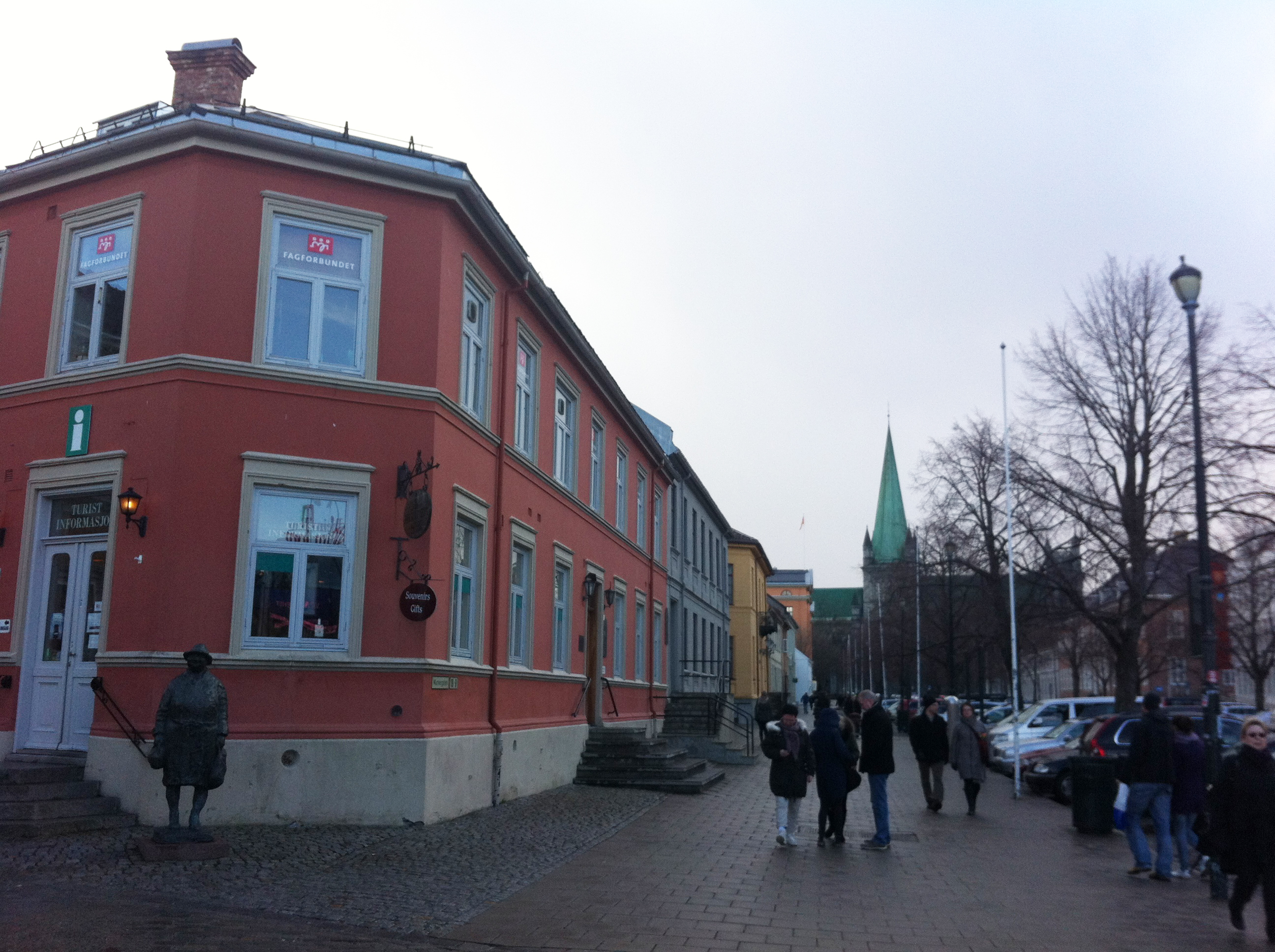 The street Munkegata (=the monk's street) leading up to The Nidaros Cathedral in Trondheim, Norway, seen from the central market square. The closest building to the left is No 19 Munkegata, the Tourist information office. The sculpture in front of the building: "Go'dagen" by Tone Thiis Schjetne